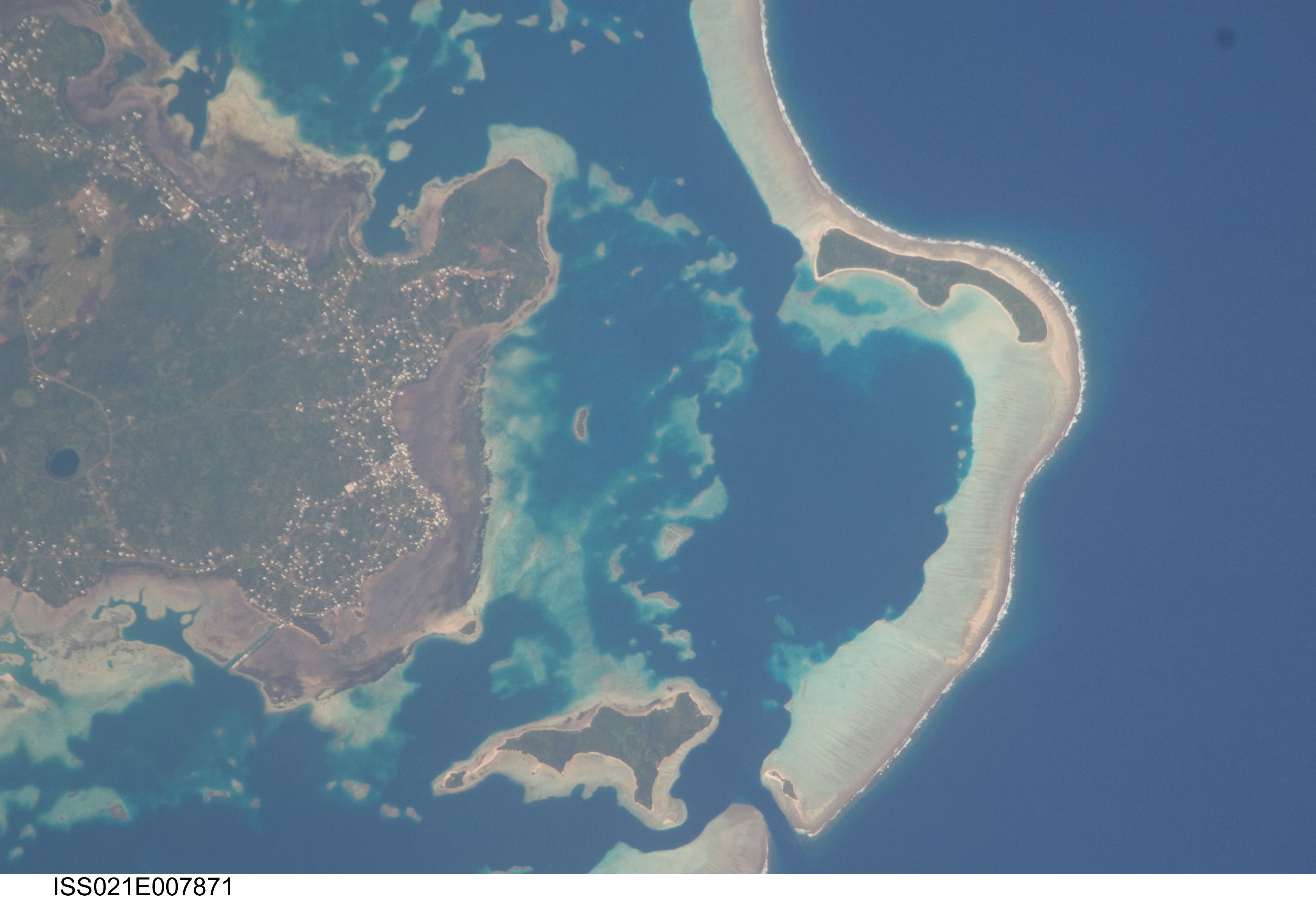 Satellite picture of Wallis island taken by NASA (East oriented). Mu'a district is visible with the Lanutavake lake (bottom left corner). The islets are Faioa (up), Fenuafo'ou (small one next to the Honikulu pass), Nukuatea and Saint Christopher islet.